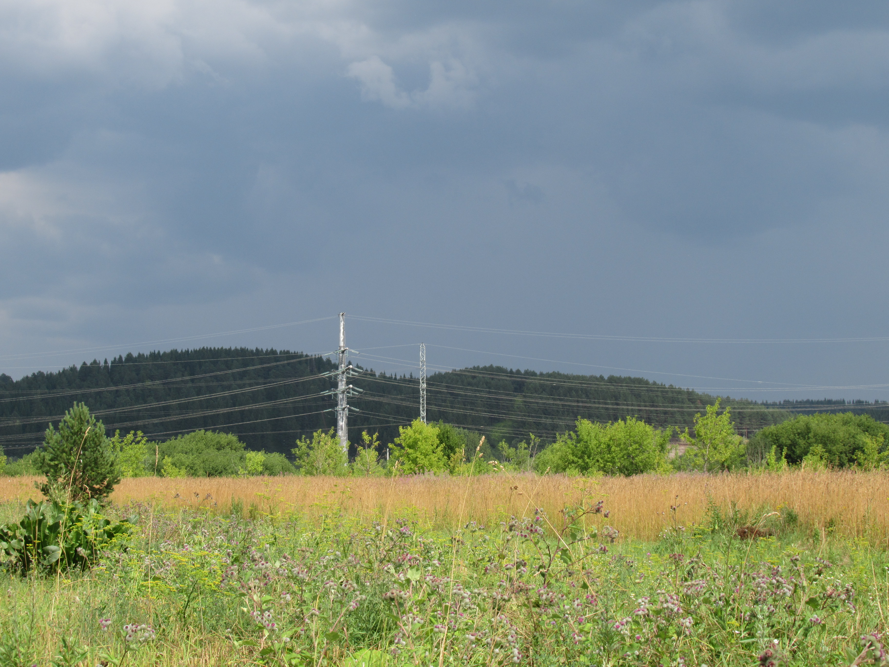 Andronovsky forest in Perm